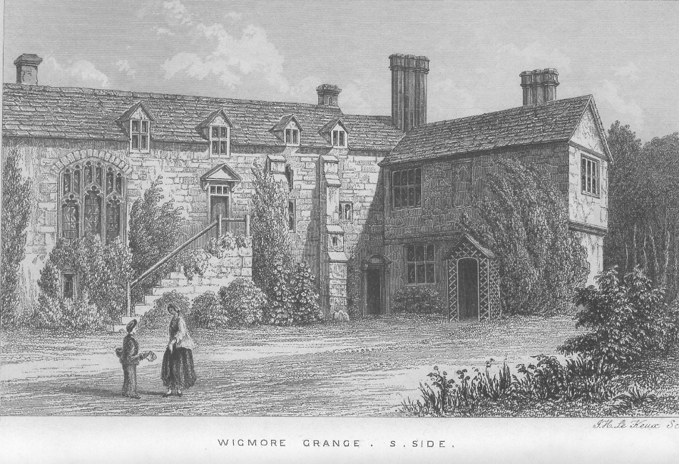 Wigmore Grange, Herefordshire by Edward Blore and engraved by John le Keux Arch Camb Vol 2 1872 pg 222